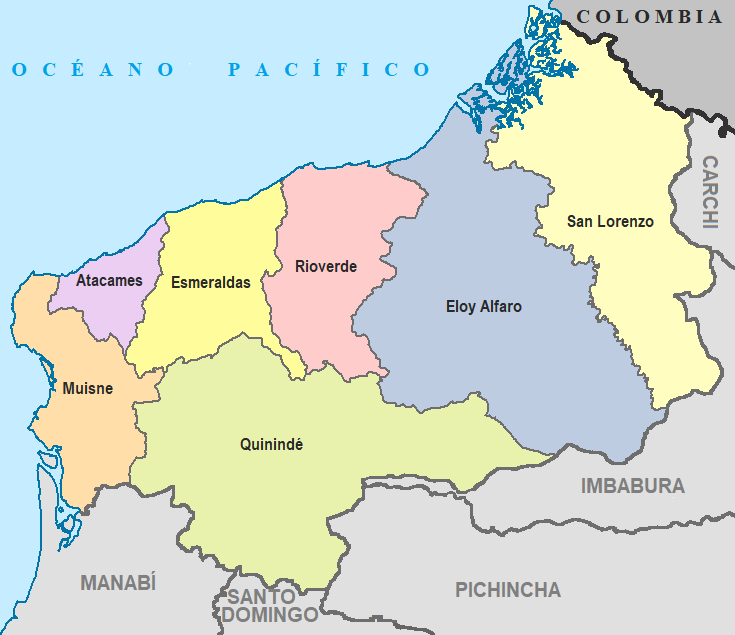 Cantons of Esmeraldas